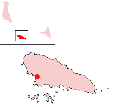 Ouallah, Mohéli, Comoros Location Map; created with the GIMP. Made by User:Acntx.